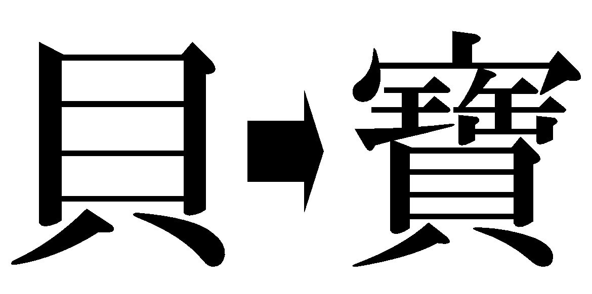 Shell_to_Ho symbols